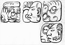 Queen Zac Kuk's name & title glyphs. Maya site of Palenque.